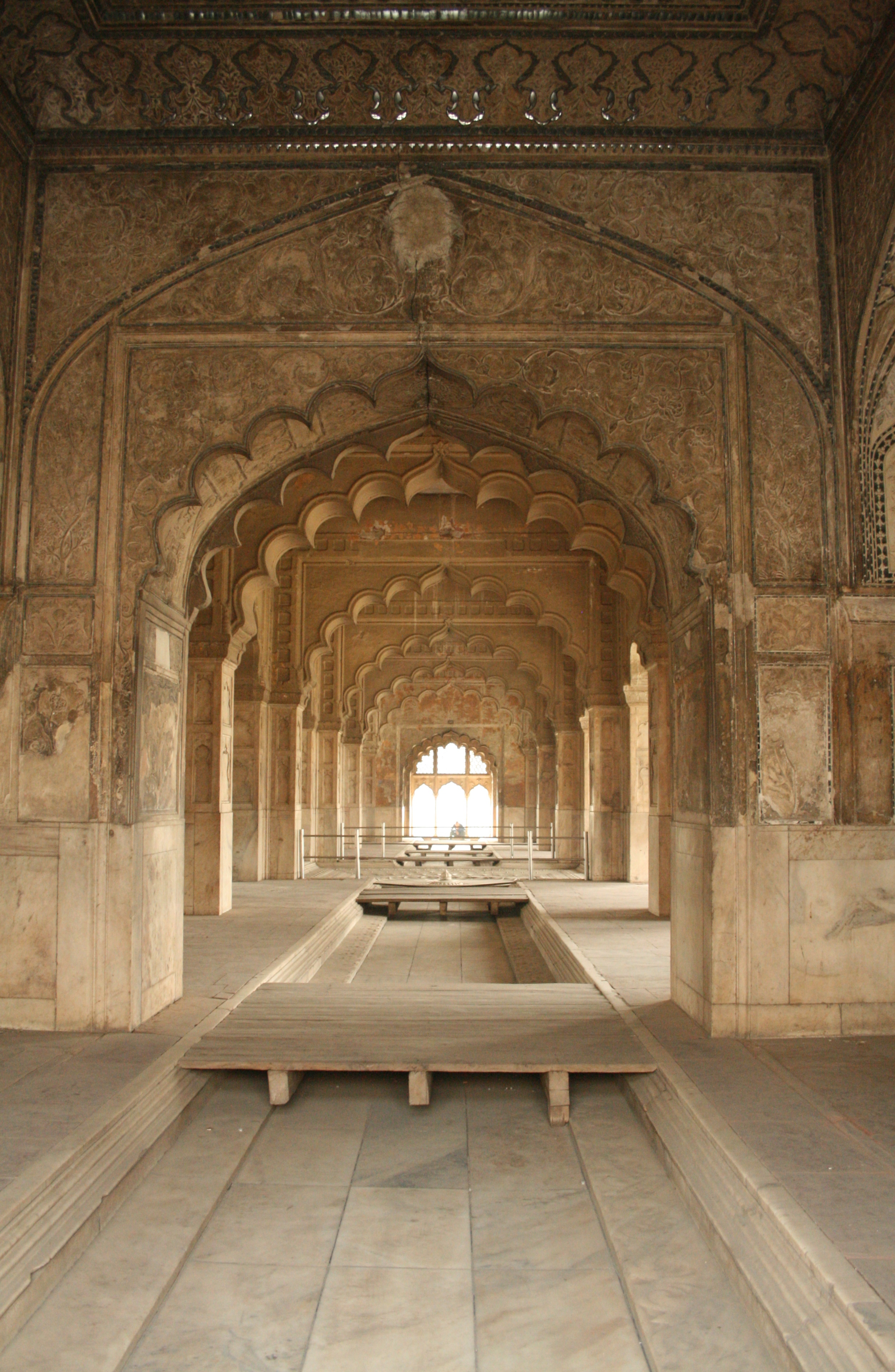 Diwan-i Khas, Red Fort, Delhi, India